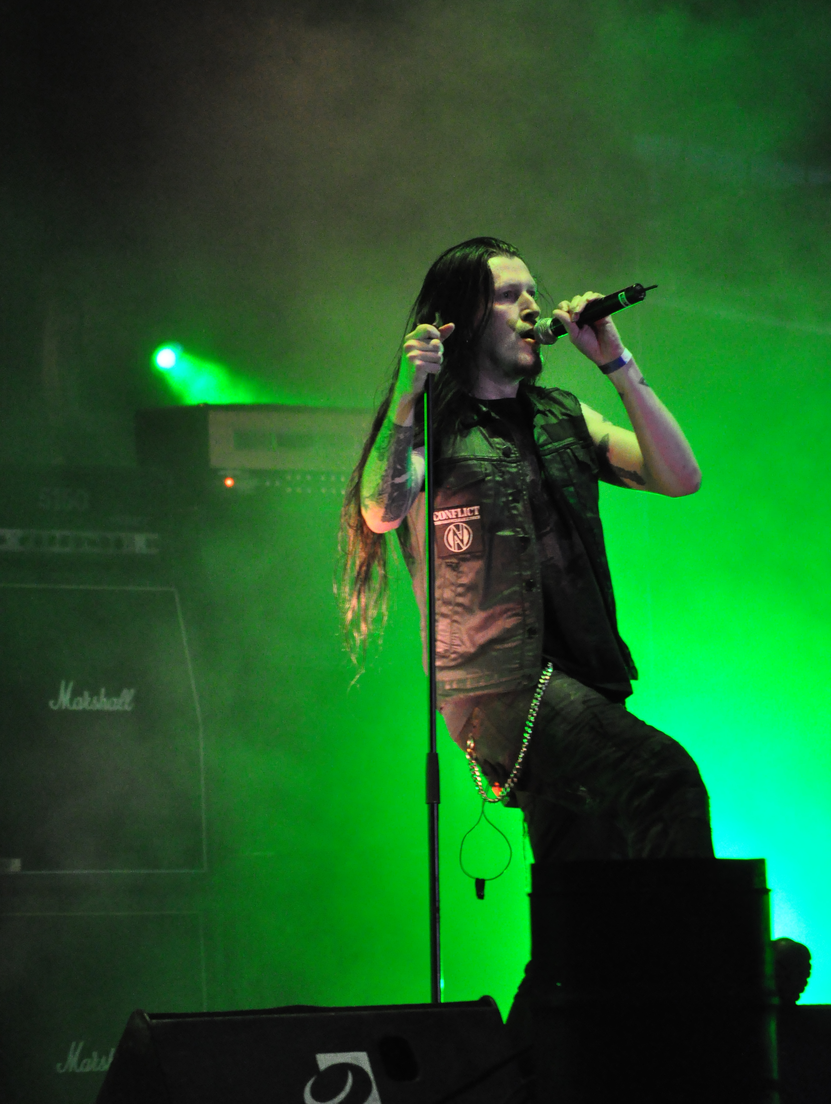 Vallenfyre at Party.San Open Air 2012 From Paradise Lost